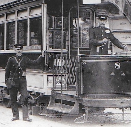 Bexley Urban District Council Tramways - Conductor and motorman with Tramcar No 8 at Courtleet Bottom; around 1903